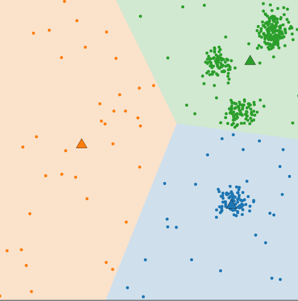 Kmeans wrongK